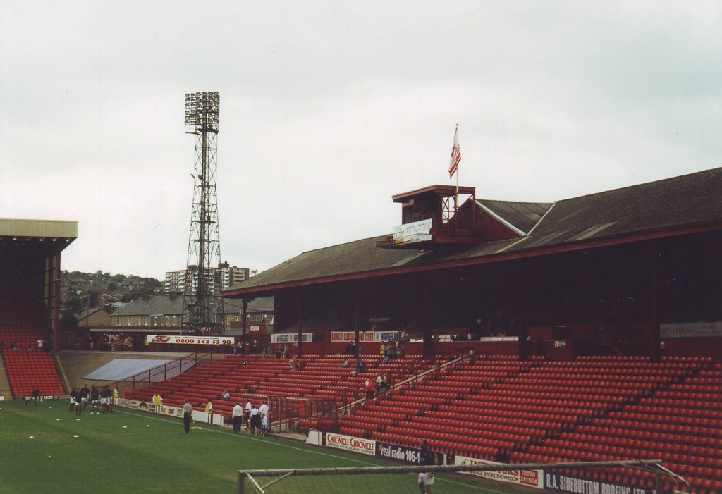 The West Stand, Oakwell, Barnsley FC, near to Barnsley, Great Britain. The goal in the foreground is only a practice goal rather than the real one. Barnsley beat Brighton when the practise goal was put away, but Seagulls would not have scored if both had been left out....